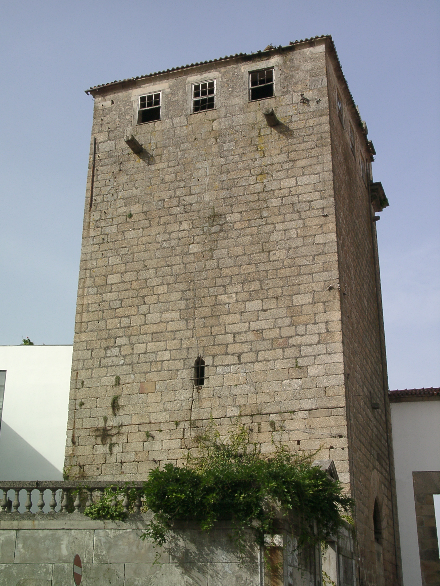 Torre de São Tiago (St. James' Tower) was the eastern gate into the walls of Braga. Braga, Portugal.